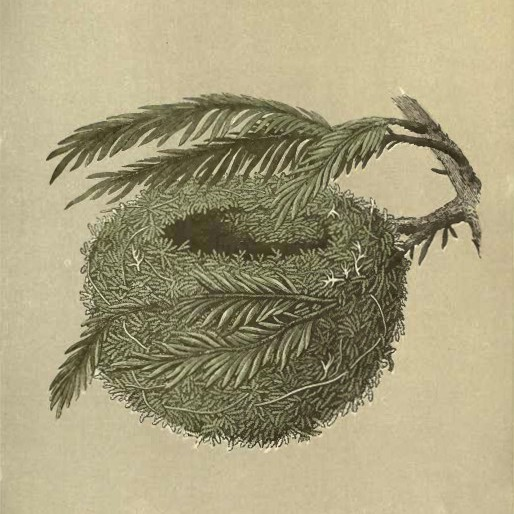 Illustration of a Goldcrests' nest.